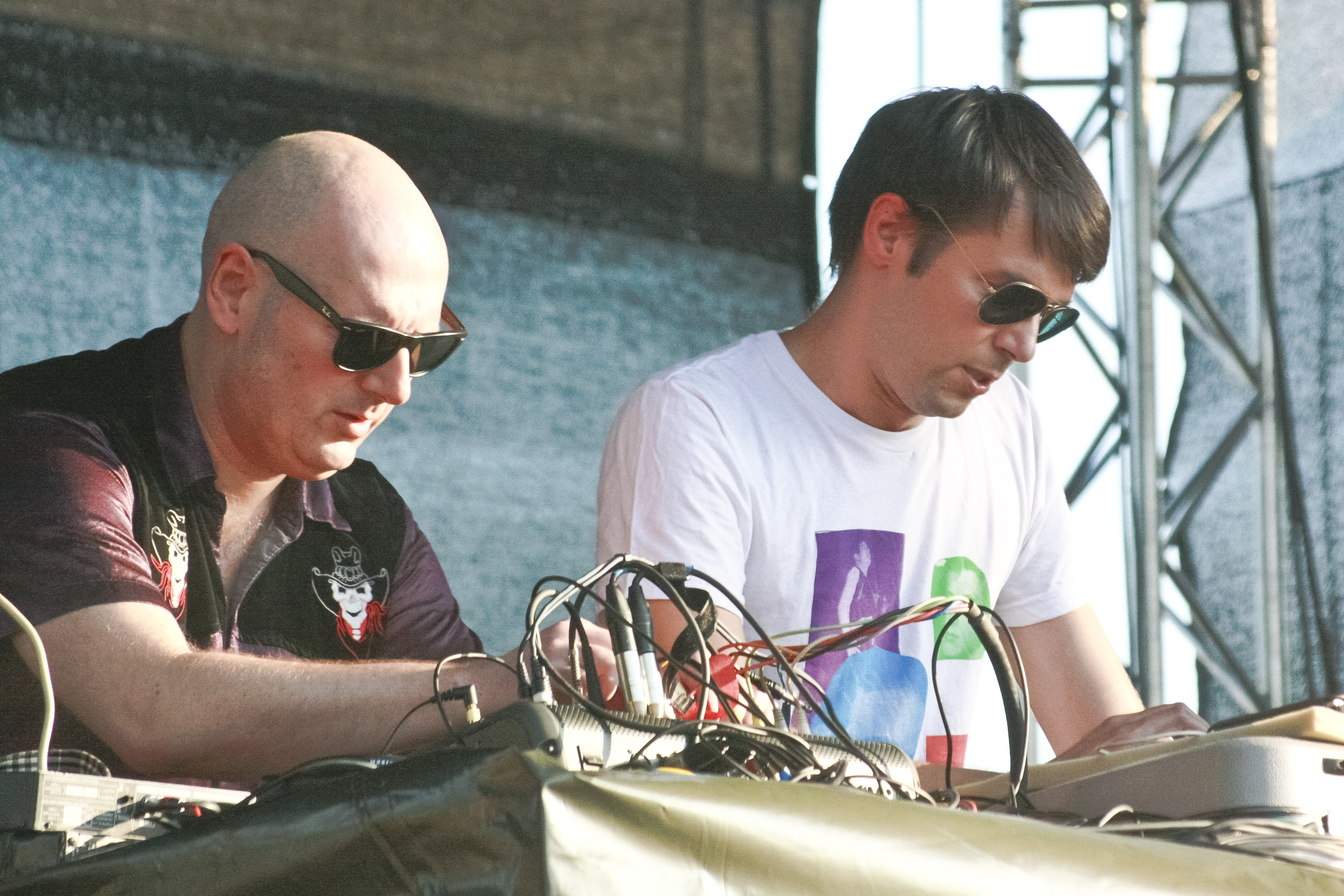 Alter Ego at Juicy Beats Festival, Dortmund/Germany